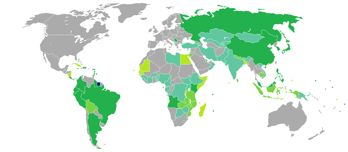 Visa requirements for Surinamese citizens Suriname Visa free access Visa on arrival eVisa Visa available both on arrival or online Visa required